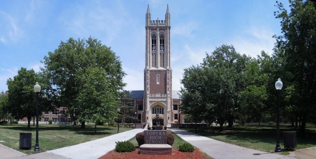 Topeka High School, 800 SW 10th Street, Topeka, KS 66612 Photo taken by Glen Stone on June 24, 2011